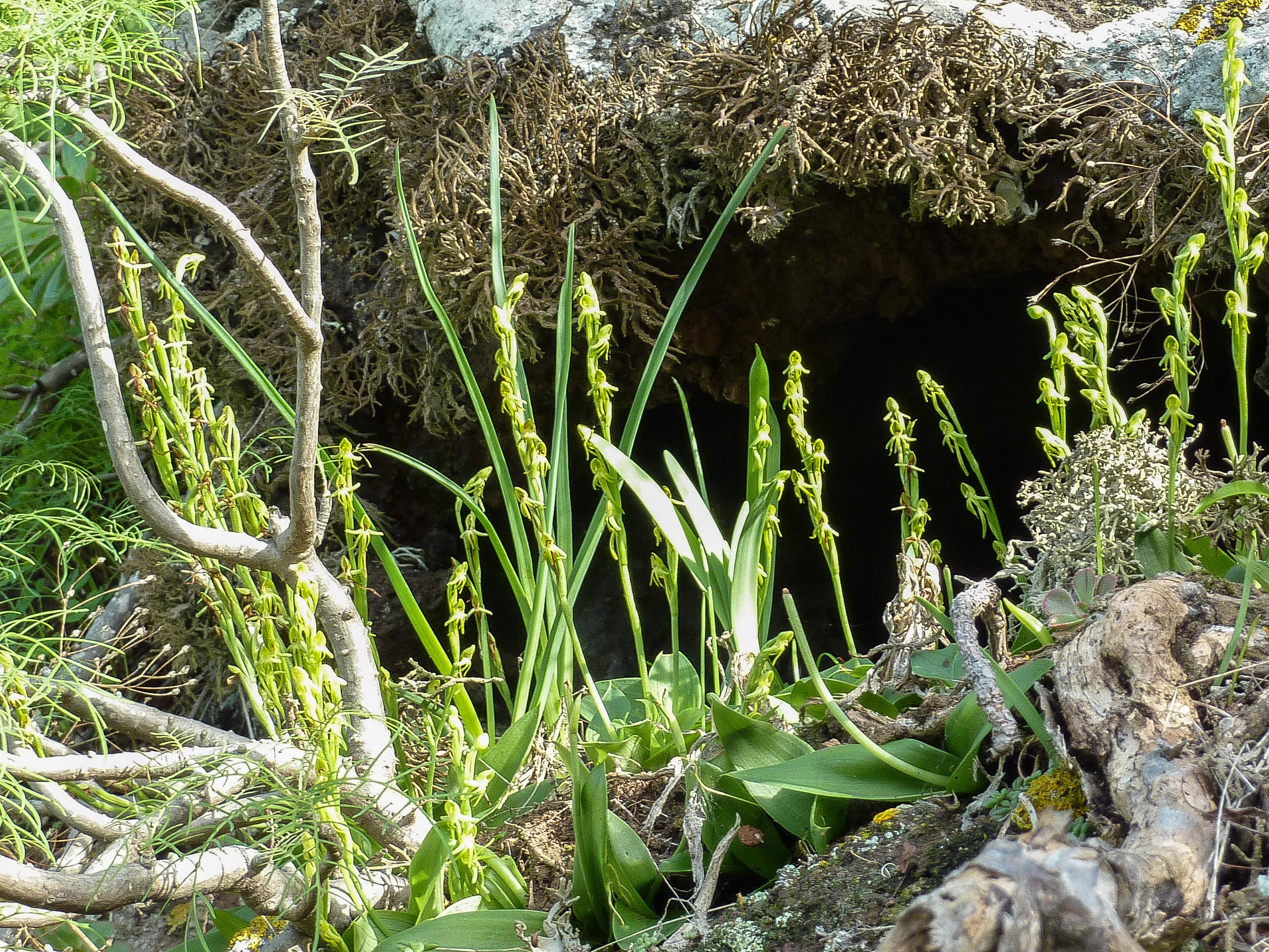 Habenaria tridactylites growing in the Jardín Botánico Canario Viera y Clavijo.